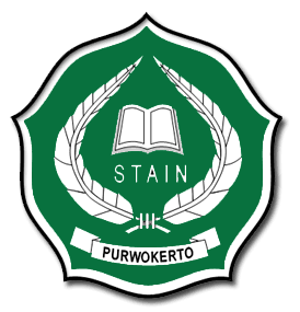 Logo Stain Purwokerto Jawa Tengah